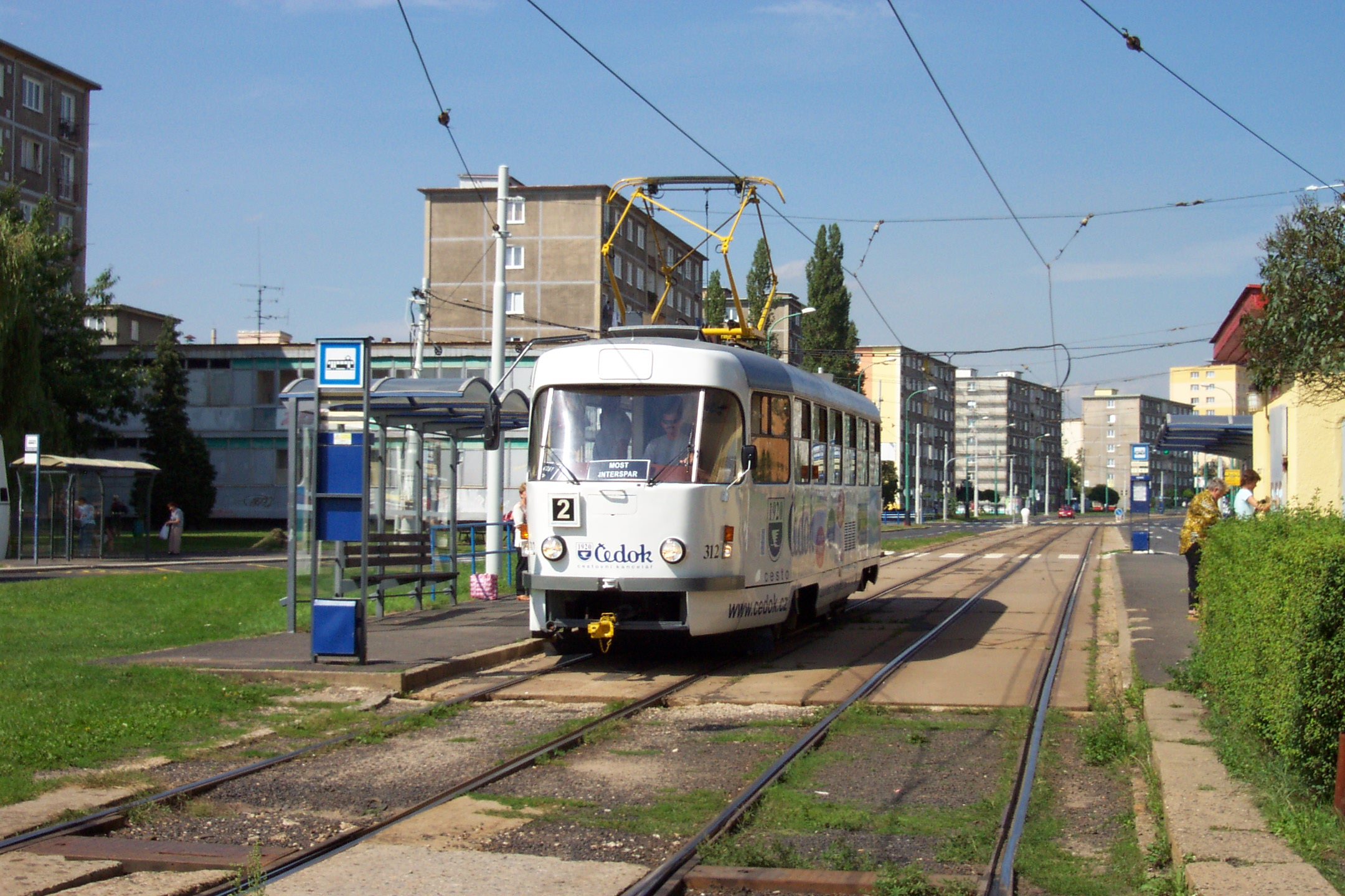 Tram type Tatra T3 at Most, on the Budovatelů street, near the depot Vozovna Most